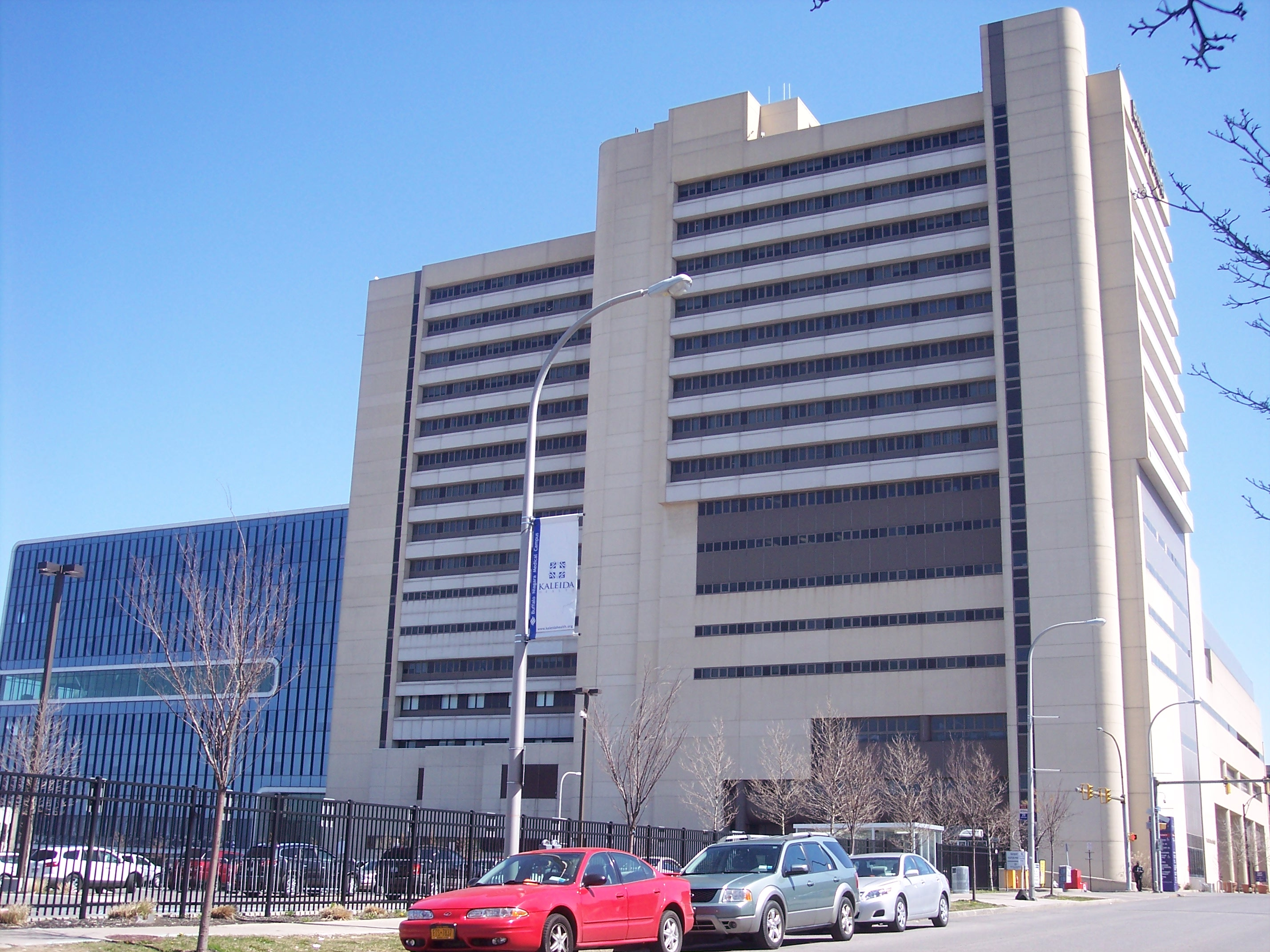 Buffalo General Hospital, 100 High Street Buffalo, NY 14203